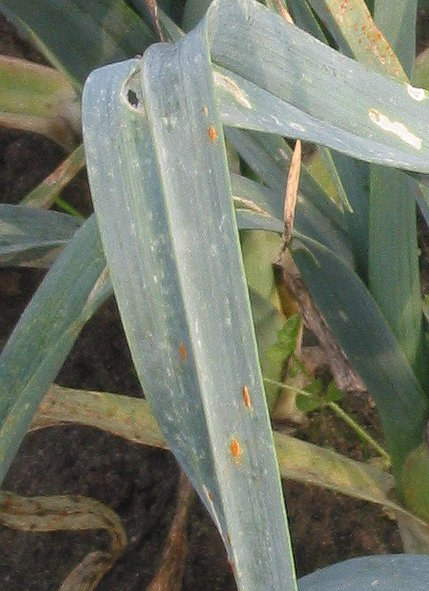 Puccinia allii on Allium porrum